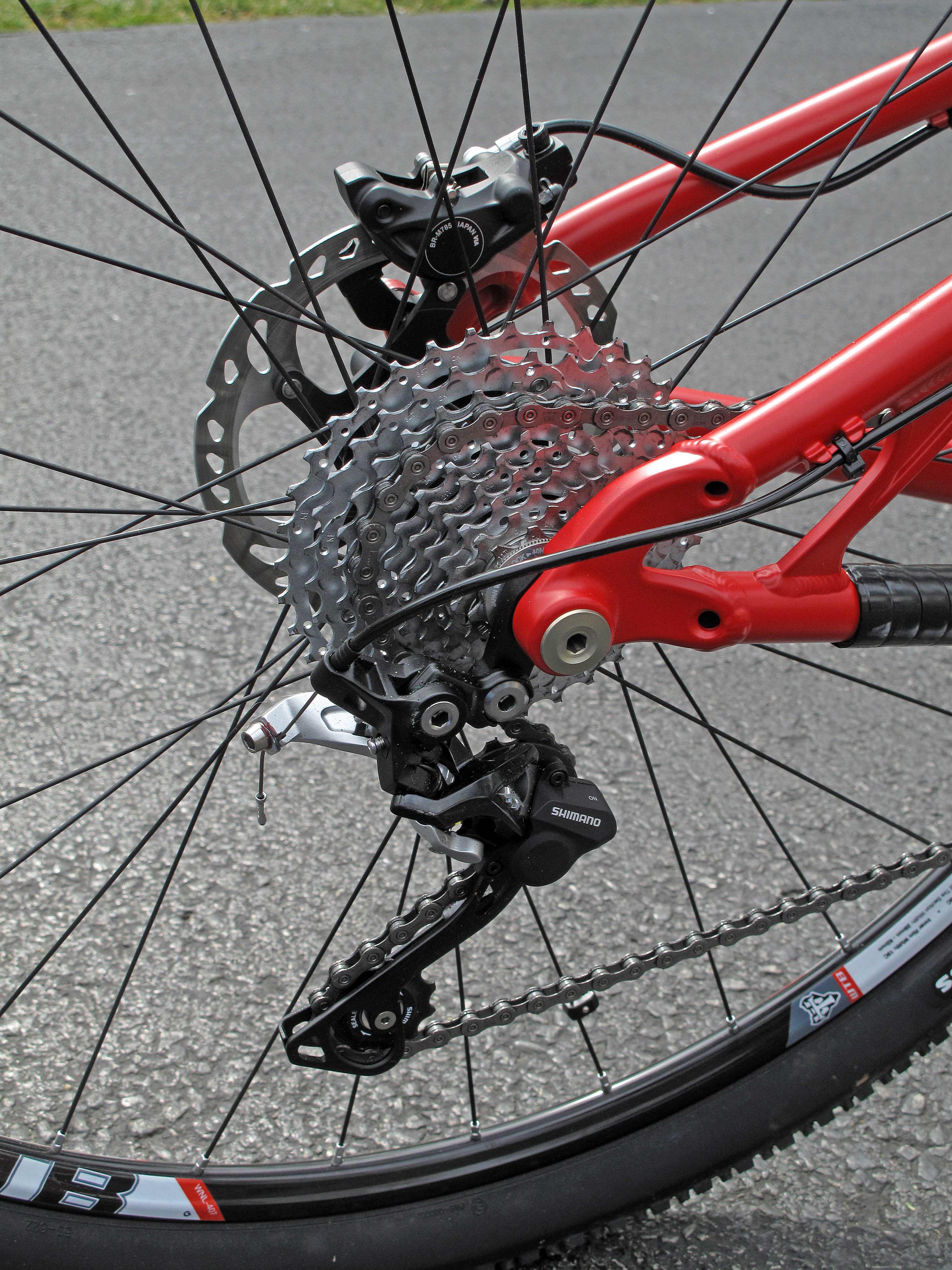 Rear wheel detail of 2013 Santa Cruz Tallboy mountain bike.